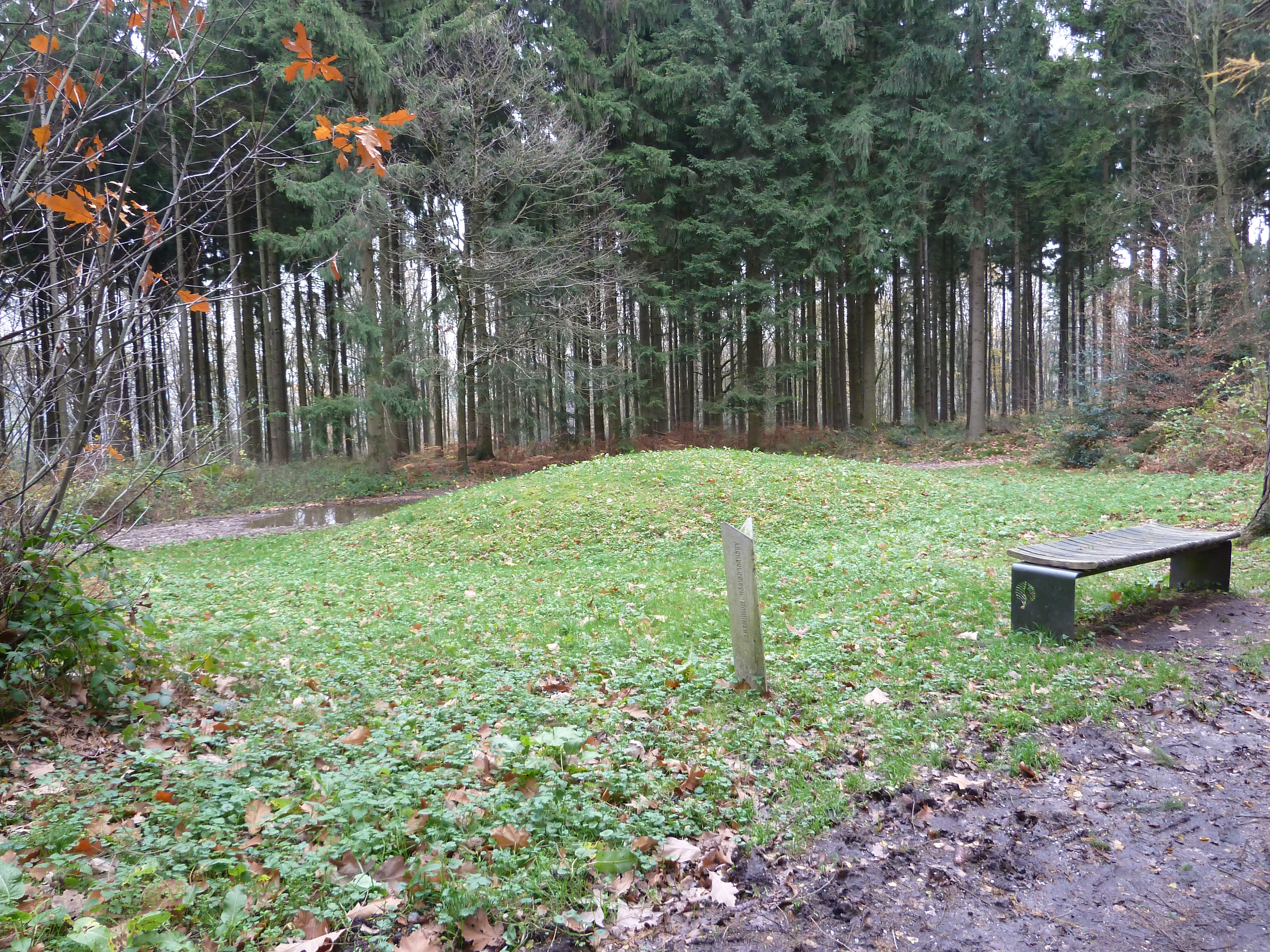 Tumulus 2 in group of tumuli in Malensbosch/Vijlenerbos, Vaals, Limburg, the Netherlands